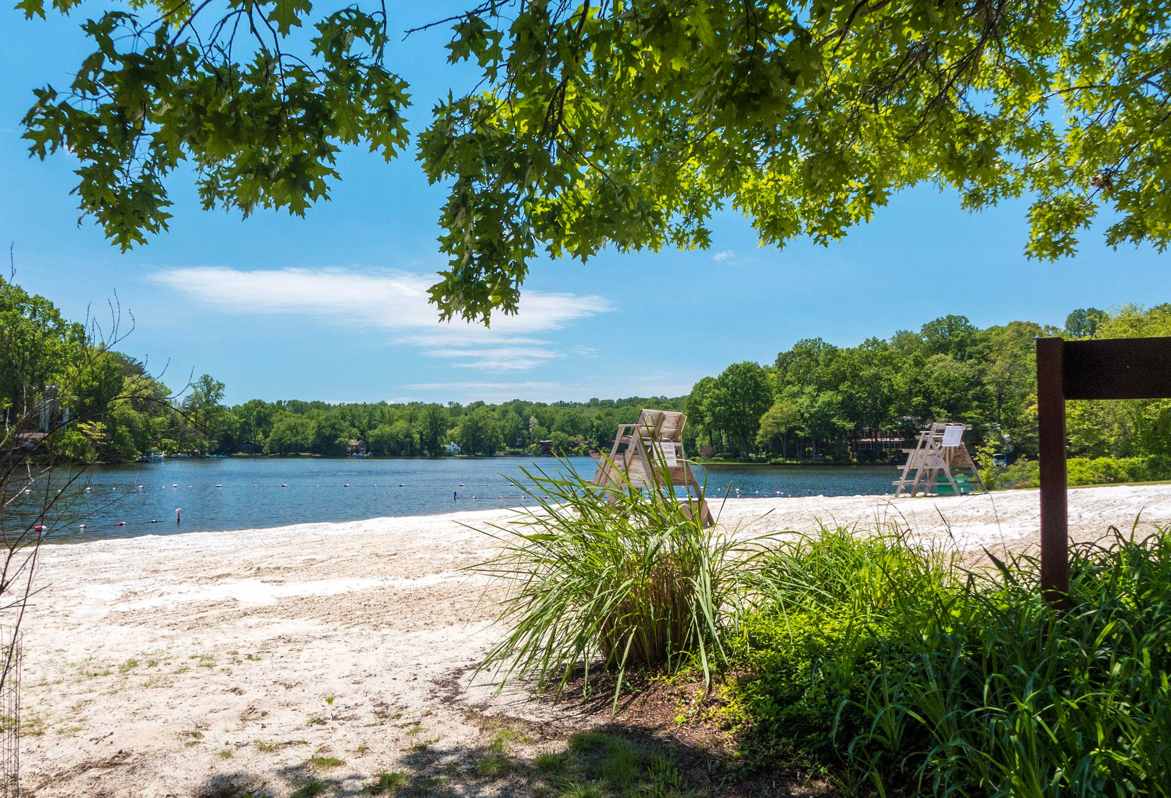 Lake Barcroft, Virginia. View over the lake from Beach 4 of the Lake Barcroft community.